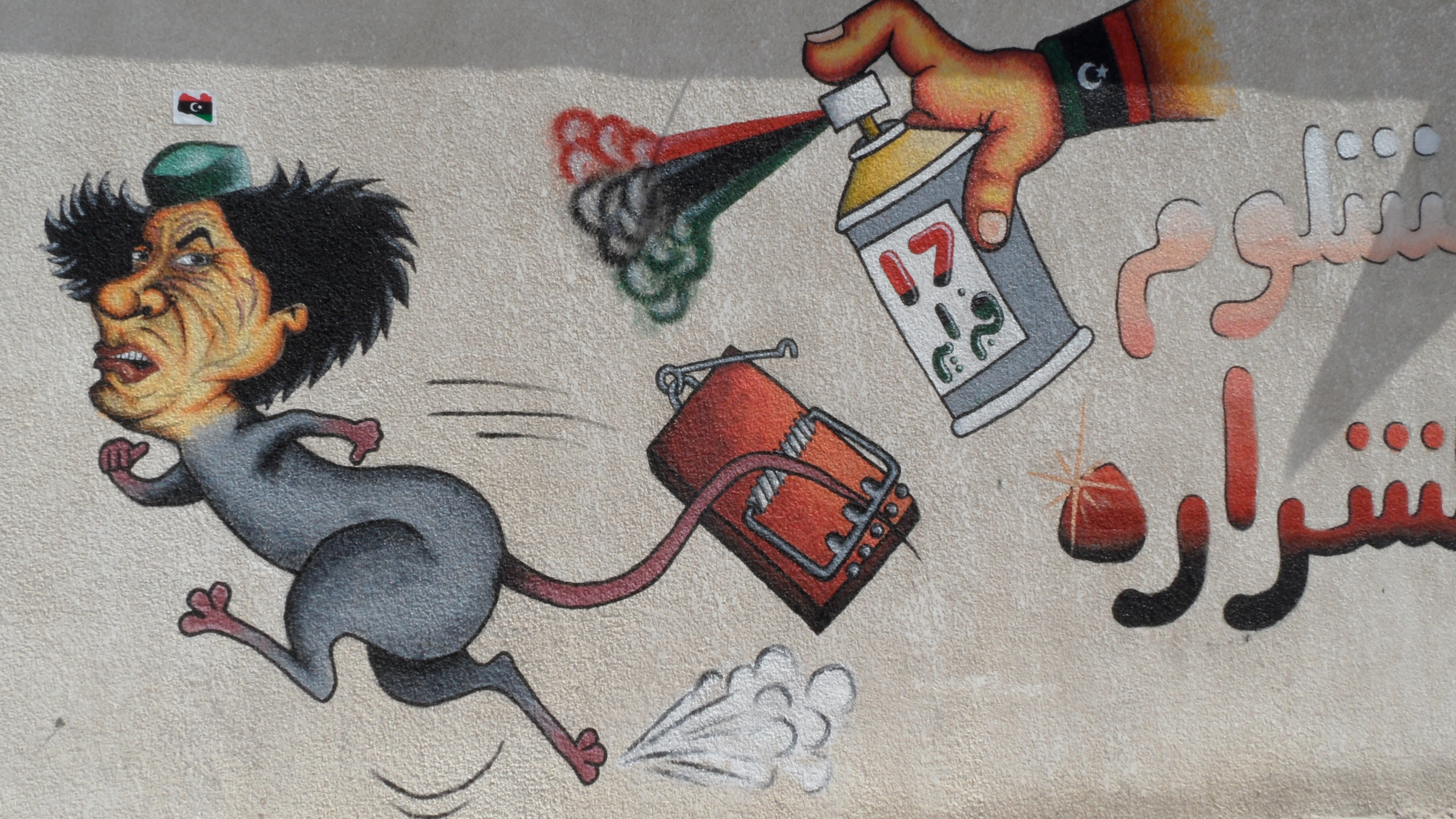 Photo taken by Jill Dougherty